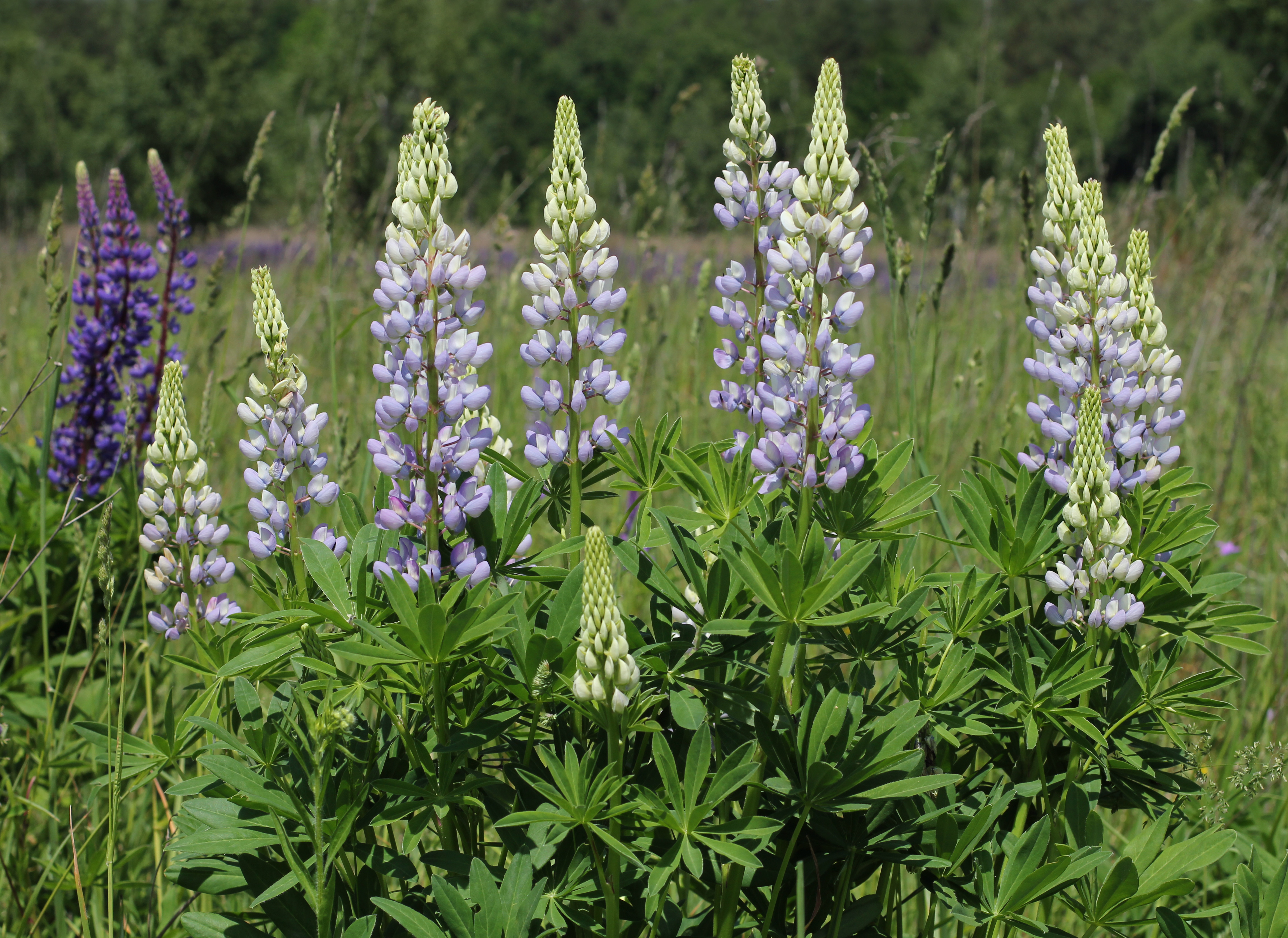 Large-leaved Lupine (Lupinus polyphyllus). Invasive species in wild in Ukraine.